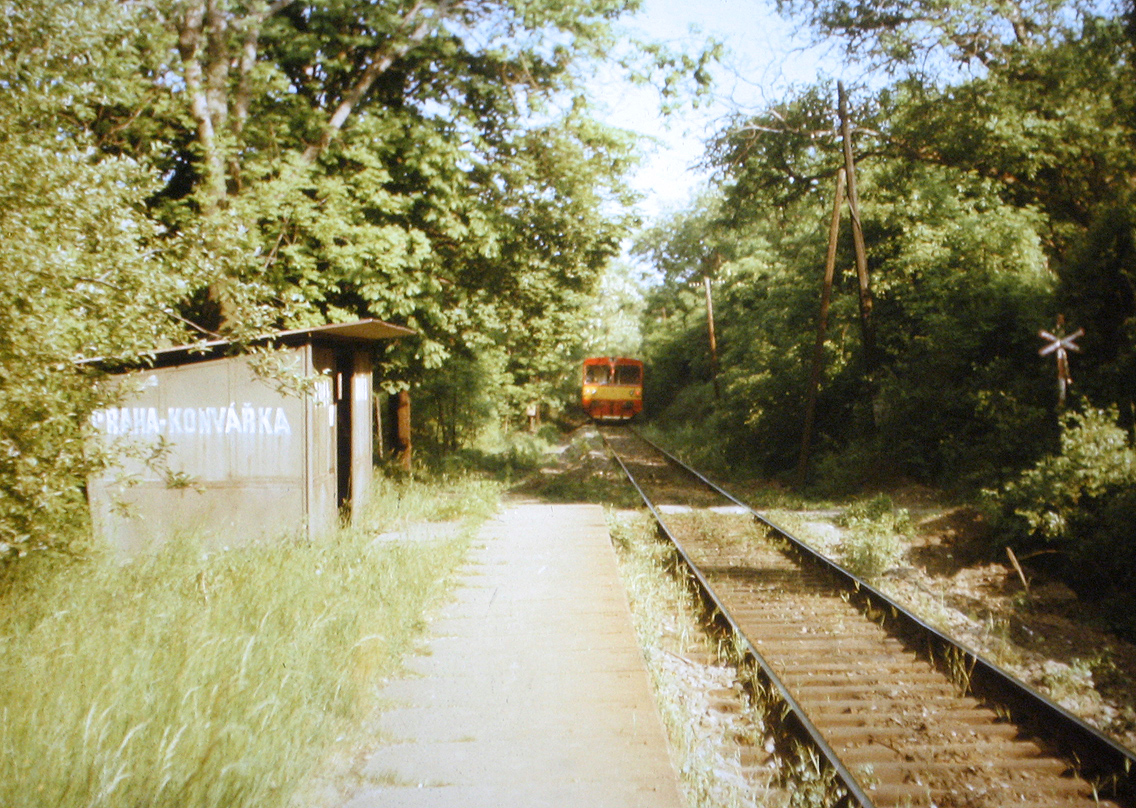 Former train stop Praha Konvářka - abandoned in June 1989